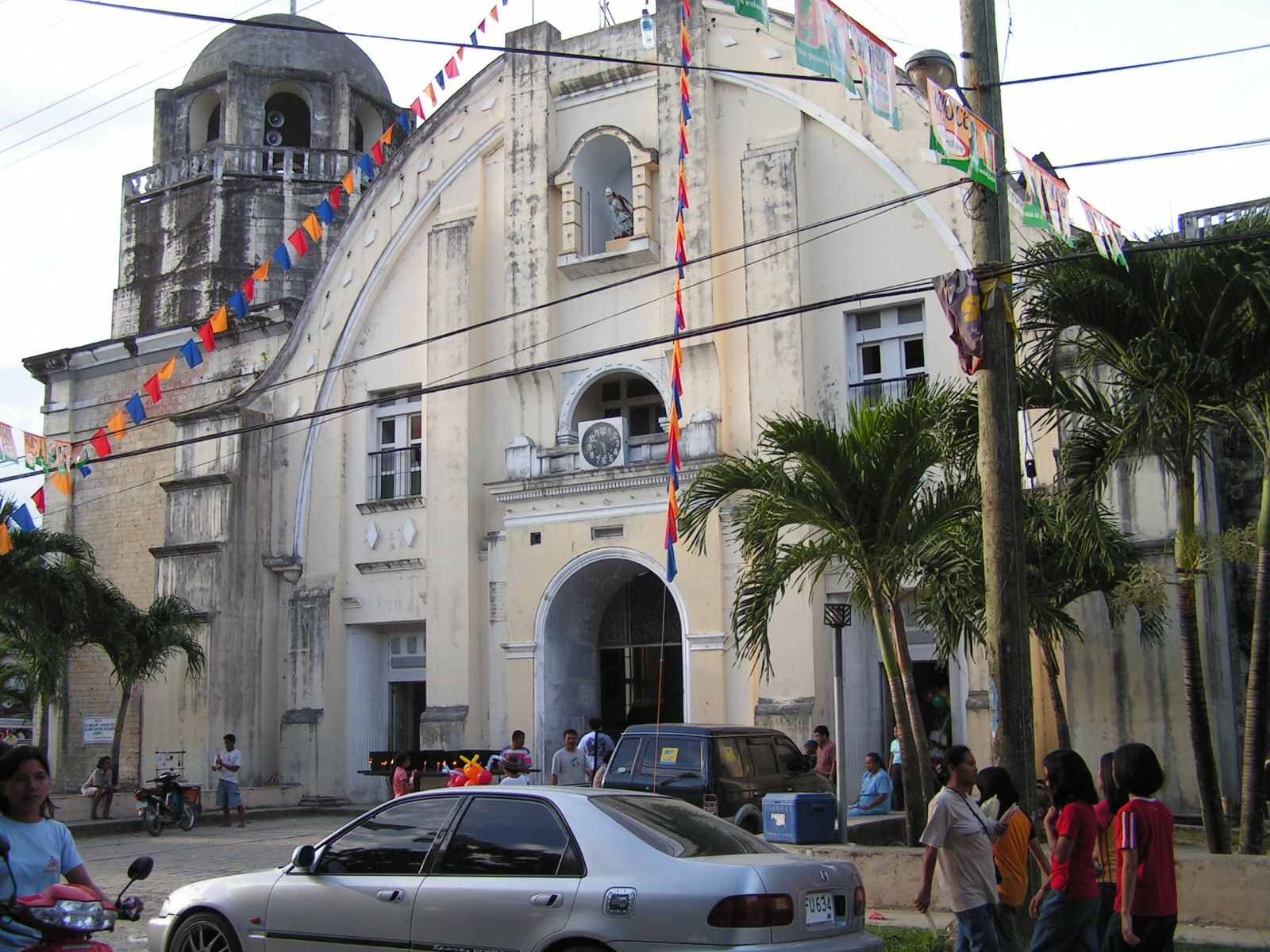 self-taken